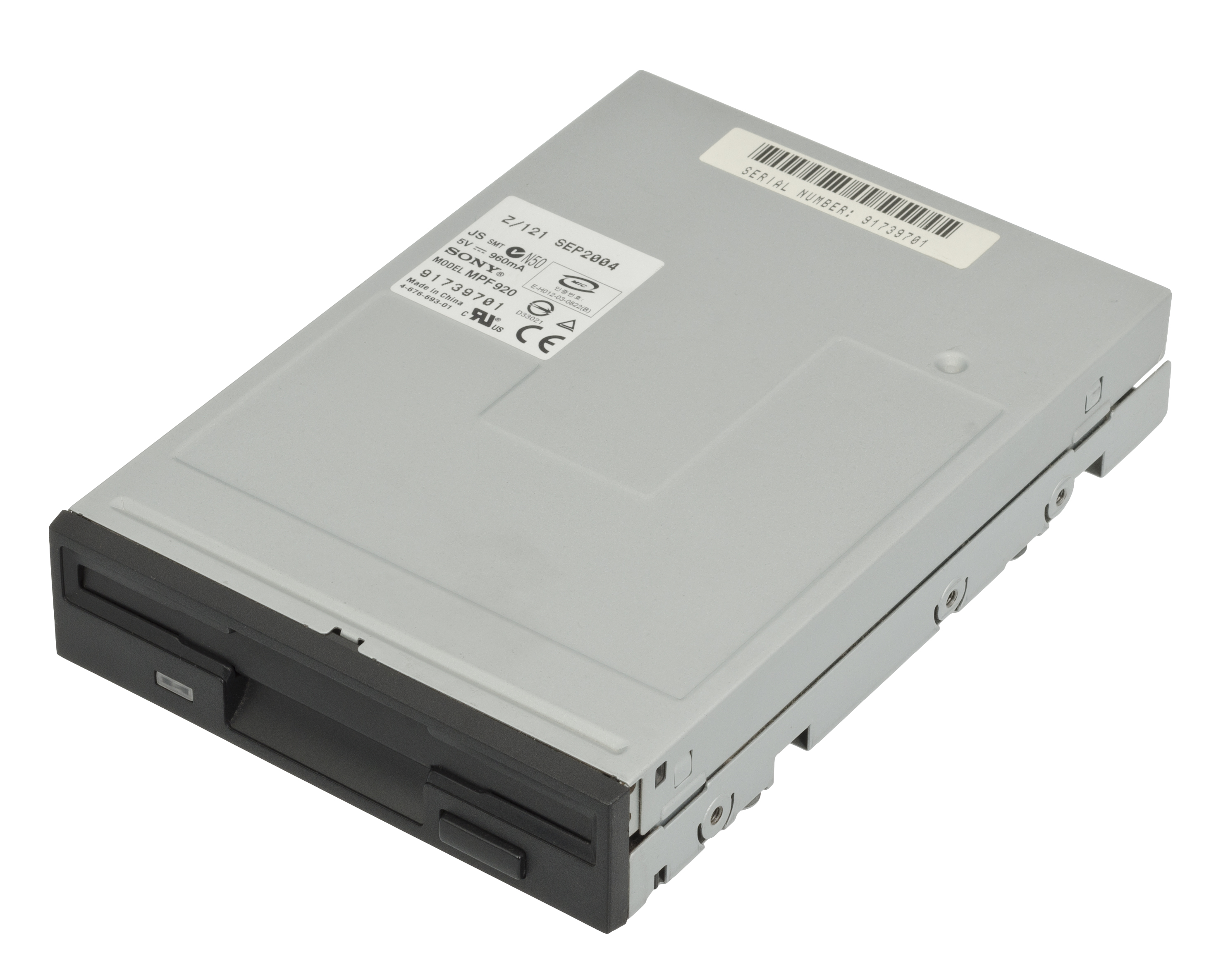 An internal floppy drive for a PC. This 3.5" drive accepts floppy discs as removable media, capable of storing 1.44 MB on each disc.